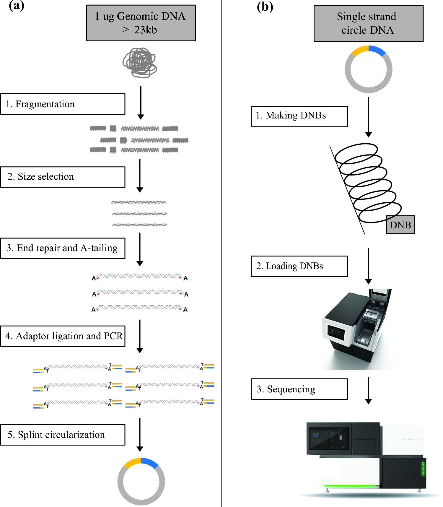 Flowchart of library construction and sequencing for BGISEQ-500 DNA nanoball sequencing